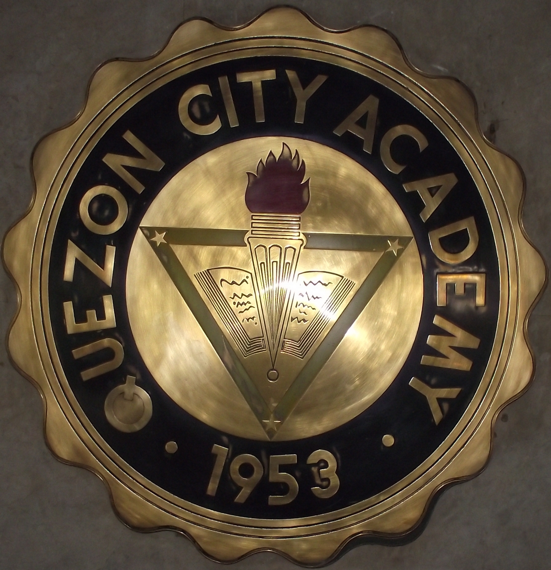 To represent the logo of Quezon CIty Academy